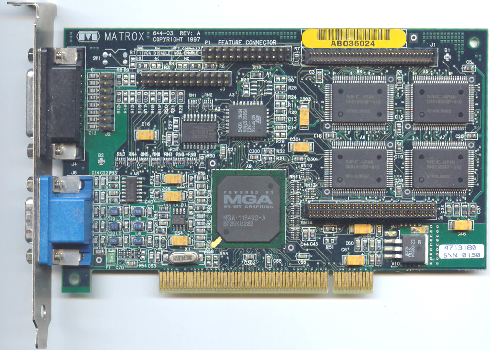 Matrox Mystique 220 4 MB version. Card scanned by me.